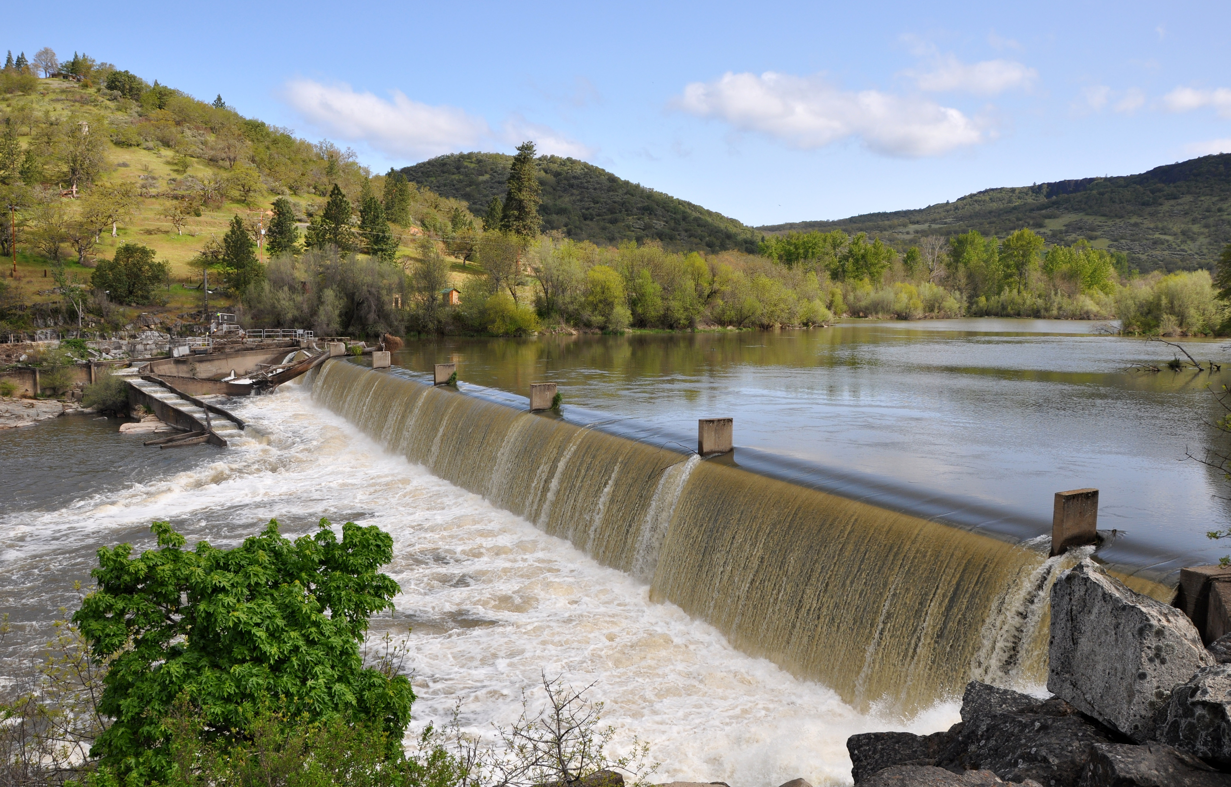 Gold Ray Dam on the Rogue River upstream of Gold Hill in the U.S. state of Oregon. Fish ladder visible on the far bank. The dam, which made fish passage difficult, was removed later in 2010. The concrete structure was about 35 feet (11 m) high.